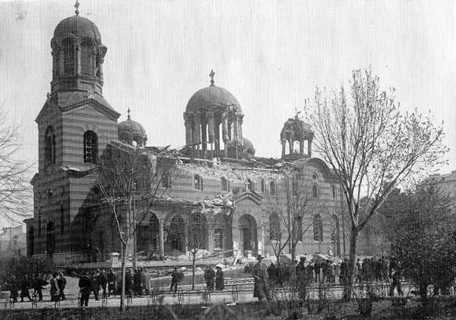 'St. Kral/ Nedelya' Cathedral in Sofia after the Communist assault, April 1925.